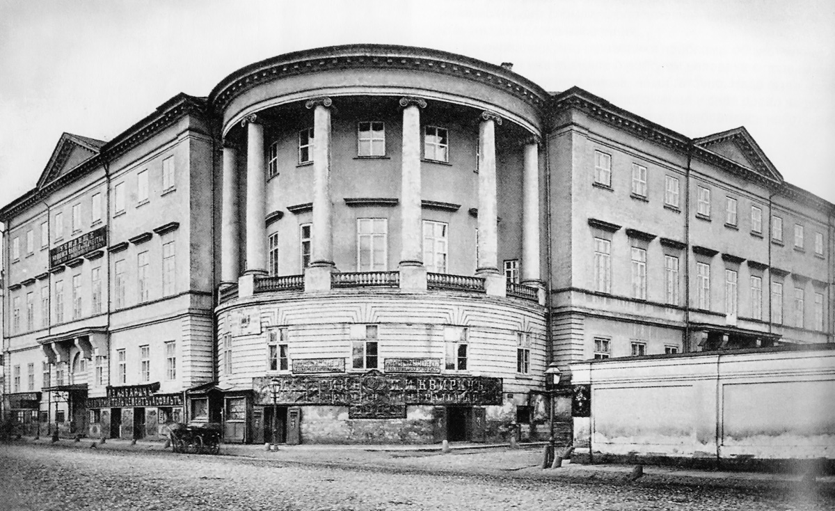 Moscow school of Painting, Sculpture and Architecture - early 20th century.